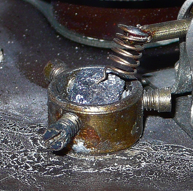 crystal detector